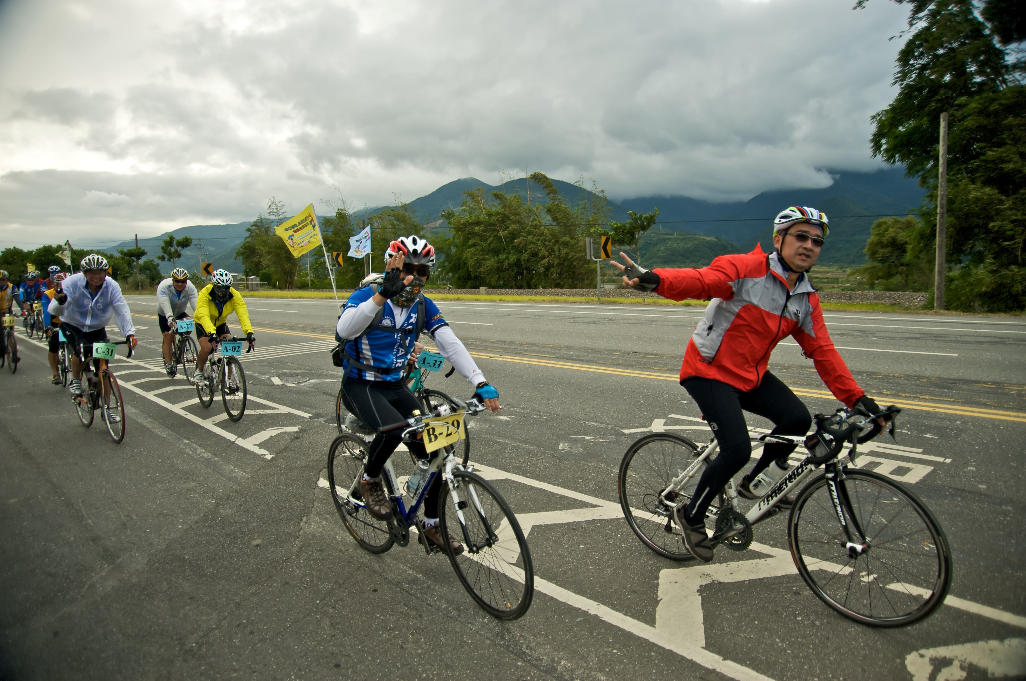 Bicyclists tour through the FuLi Town on the Huatung Highway in Taiwan